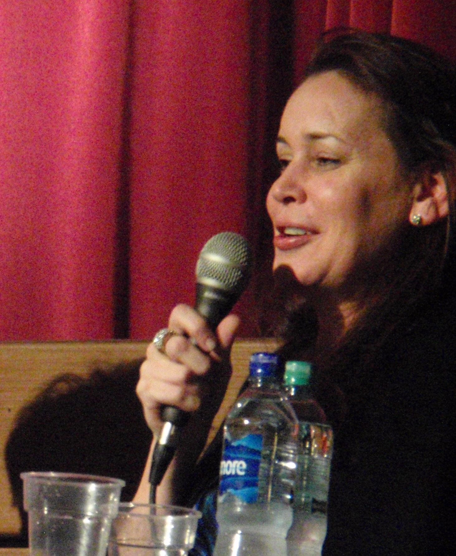 Kevin Smith and Jennifer Schwalbach Smith.